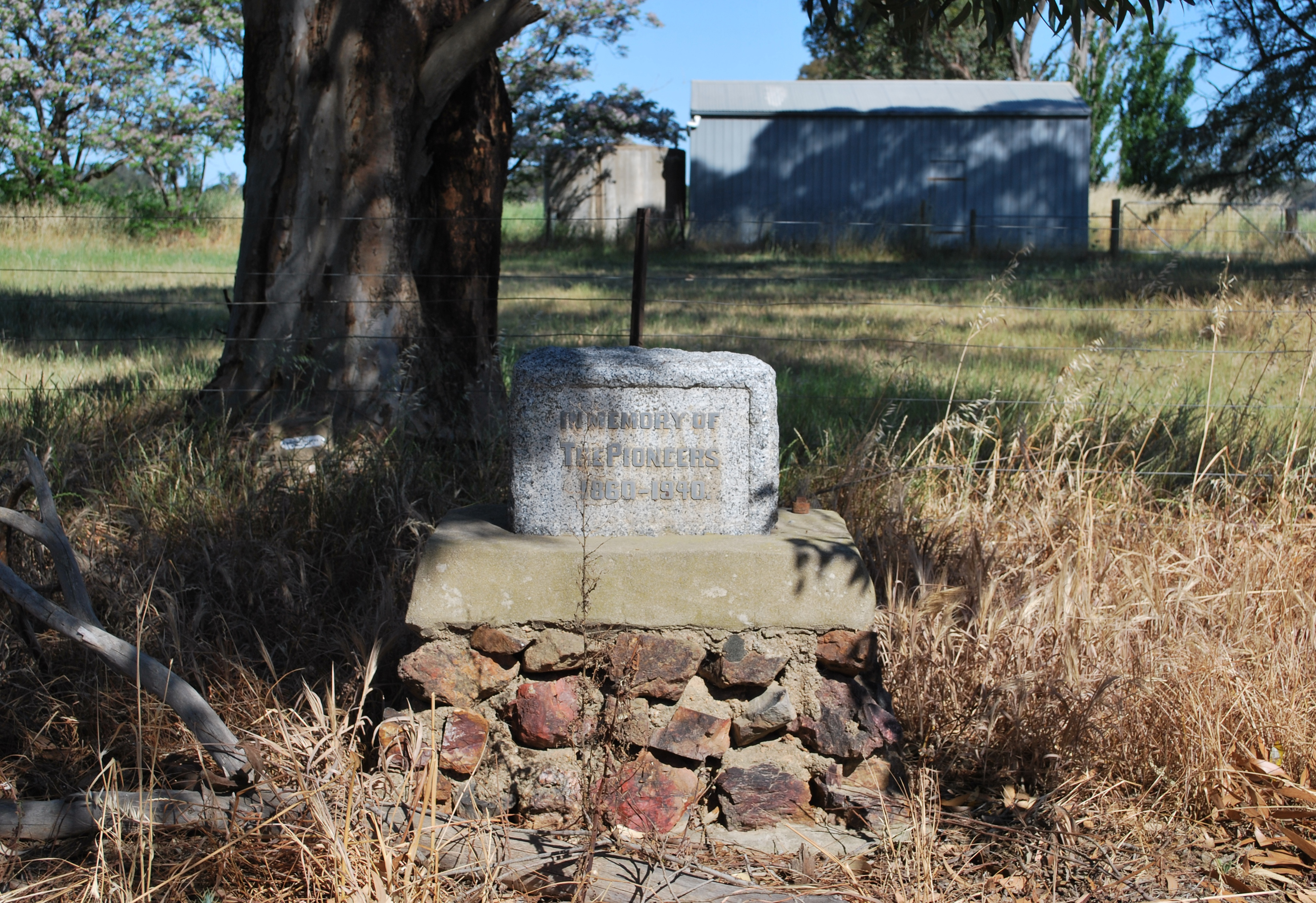 Pioneer memorial in Goomalibee, Victoria